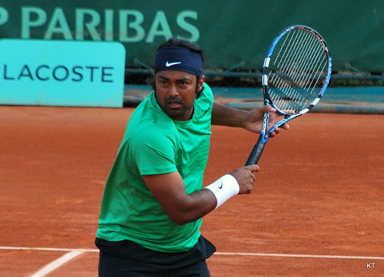 Leander Paes at the start of his first round match with Alexander Peya against Simone Bolelli & Fabio Fognini. Paes & Peya won 6-1, 6-7, 6-3. Day 5 of Roland Garros 2012.